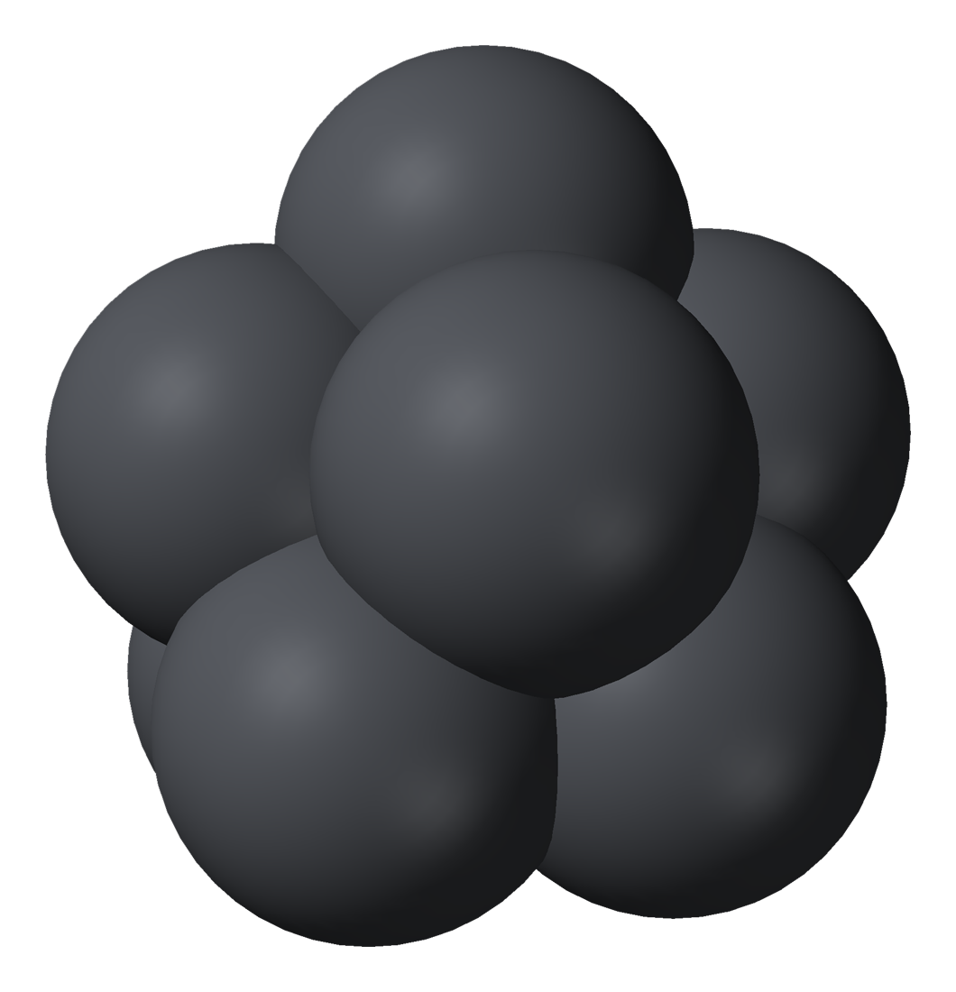 Space-filling model of the nonaplumbide anion, [Pb9]4−, as found in the crystal structure of [K(18-crown-6)]2K2Pb9·(en)1.5. X-ray crystallographic data from Inorg. Chem. (2006) 359, 4774-4778. Model constructed in CrystalMaker 8.1. Image generated in Accelrys DS Visualizer.